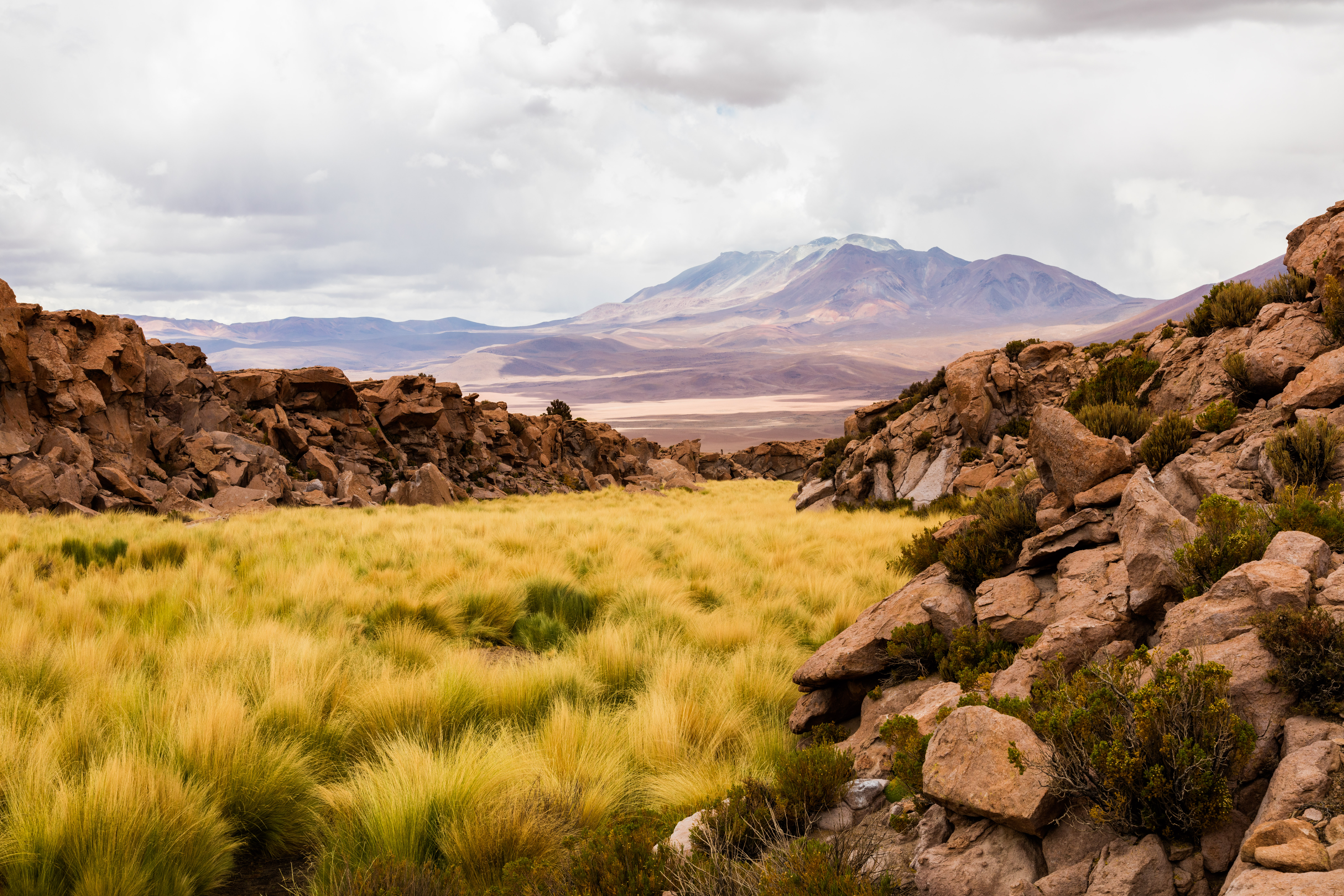 Landscape in the Aucanquilcha Hill with the Olca volcano, a 5,167 metres (16,952 ft) high stratovolcano, in the background, Antofagasta Region, Alto Loa National Reserve, northern Chile and just west of the border with Bolivia.